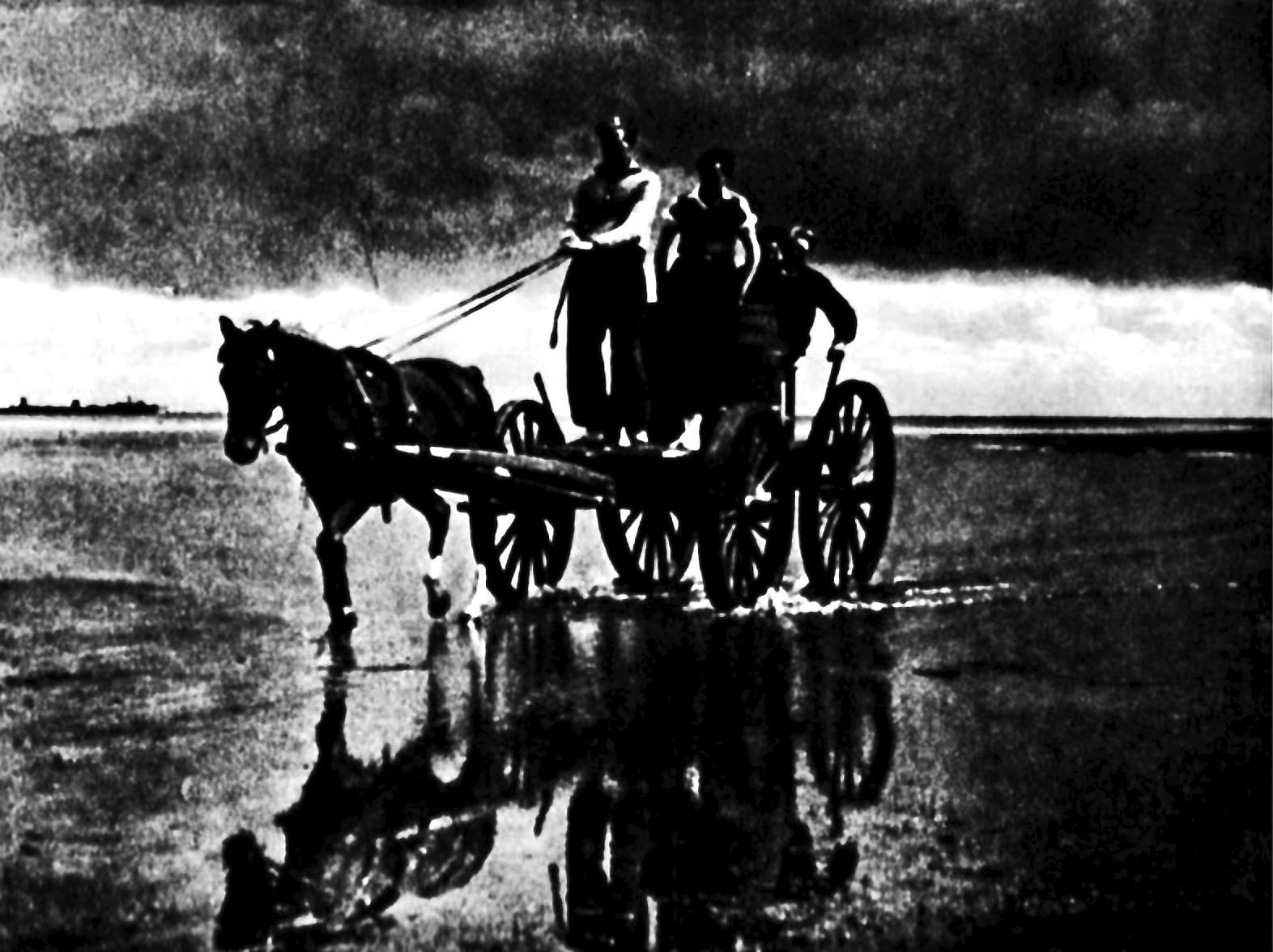 Pupils of former Schule am Meer (1925–1934) at Wadden Sea south of Juist Island, East Frisia, Prussia. With the progressive school's horse and trolley they brought in fresh water and life feed for the school's thirty seawater aquariums.